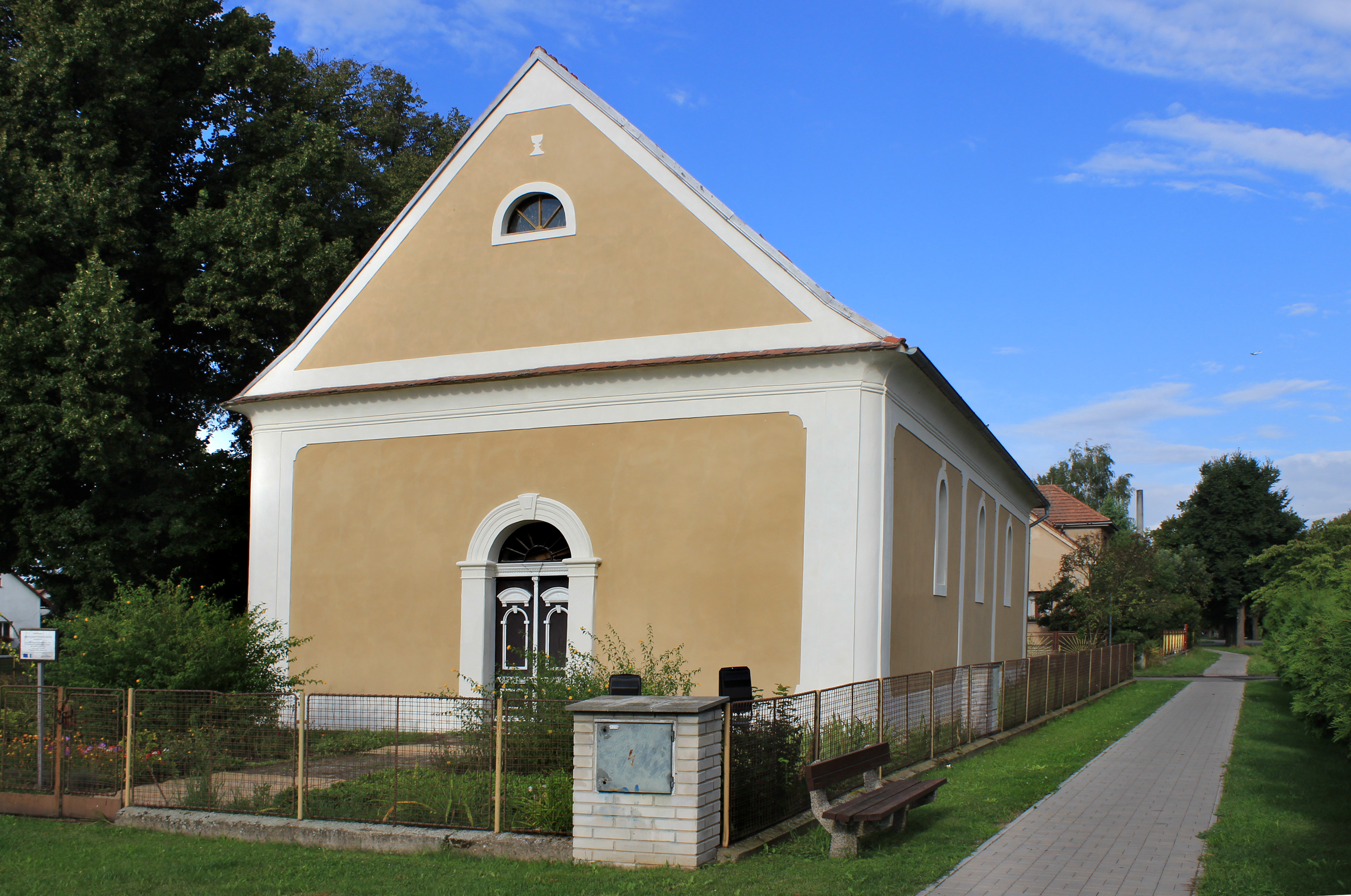 Protestant church in Hořátev, Czech Republic.